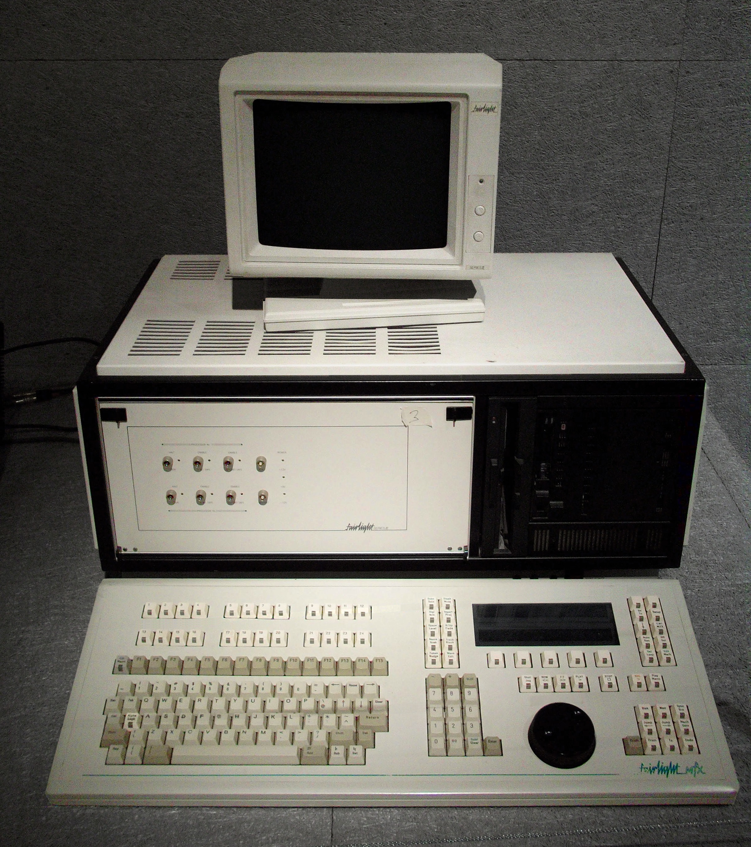 Fairlight CMI Series III (1985) Note: photograph on official page is CMI (or CMI II/IIx), but this photograph shows CMI Series III production: Fairlight Company (Peter Vogel, Kim Ryrie) “Zaubethafte Klangmaschinen” Vergessene Zukunft #1 Kulturfabrik Hainburg 20.9.08 - 19.4.09 Arts Birthday 2009